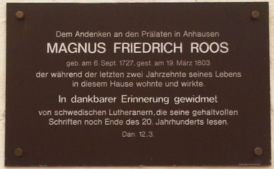 memorial plaque from Sweden for agnus Friedrich Roos at former Benedictine Abbey Anhausen